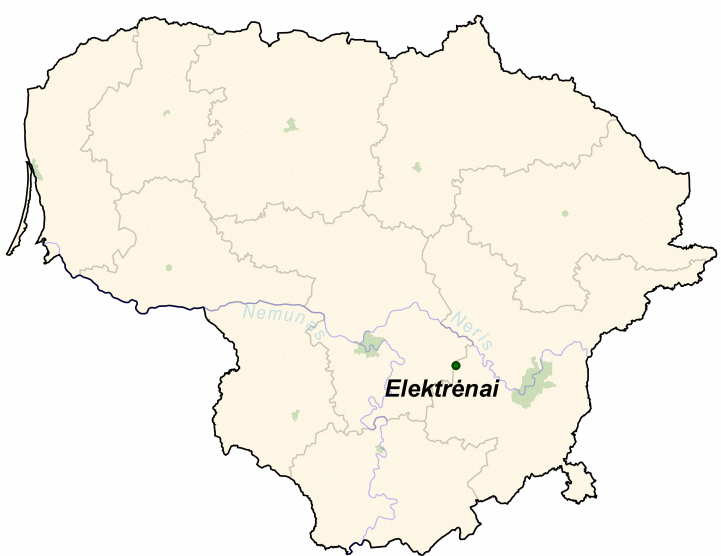 Elektrėnai on the map of Lithuania